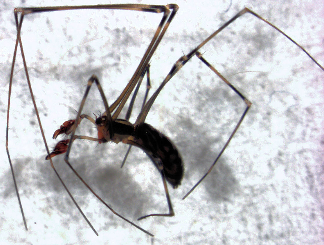 mature male Pahoroides aucklandica, body length about 3 mm